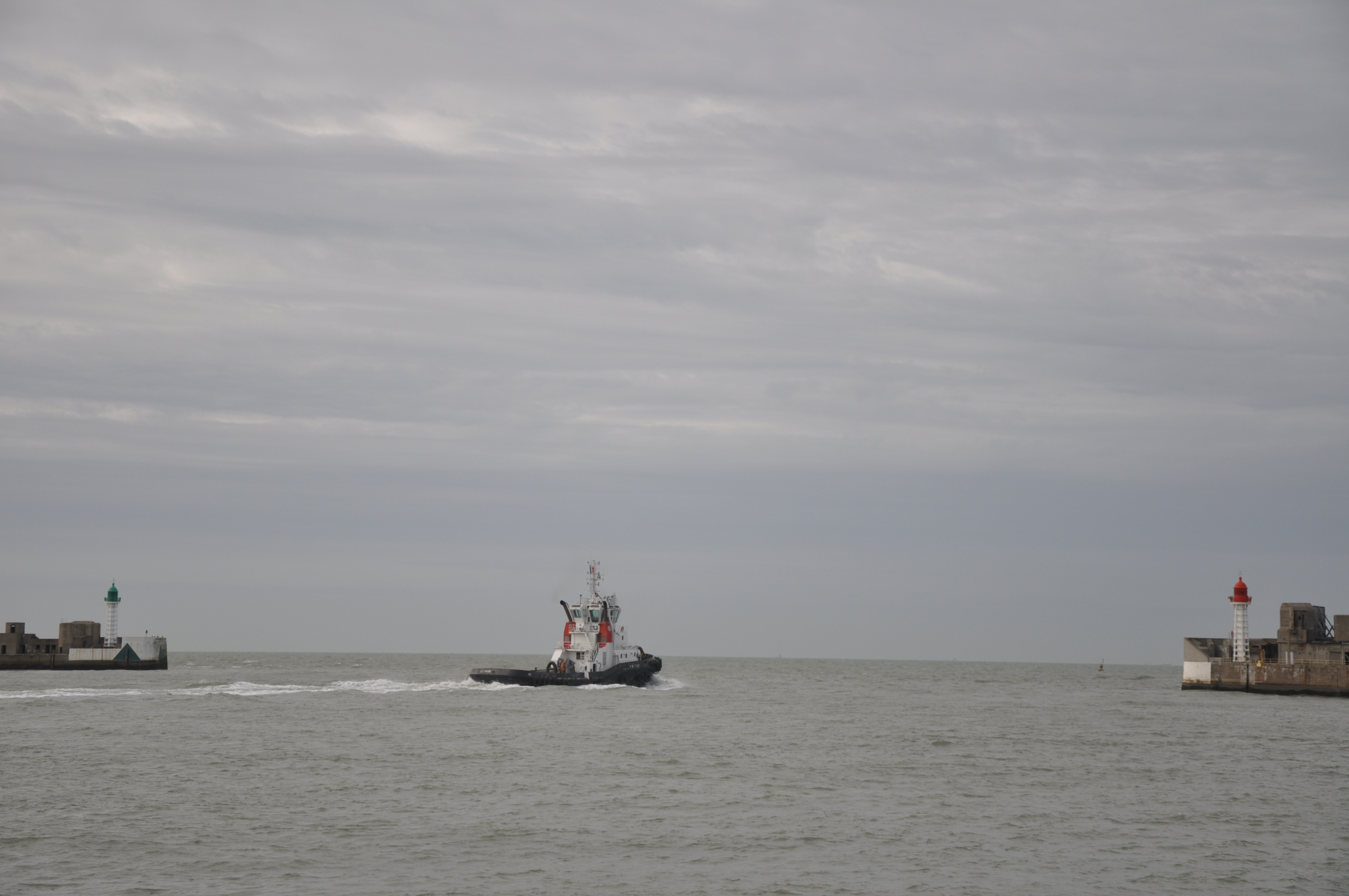 Tug "Fécamp" coming out, harbor of Le Havre (France)